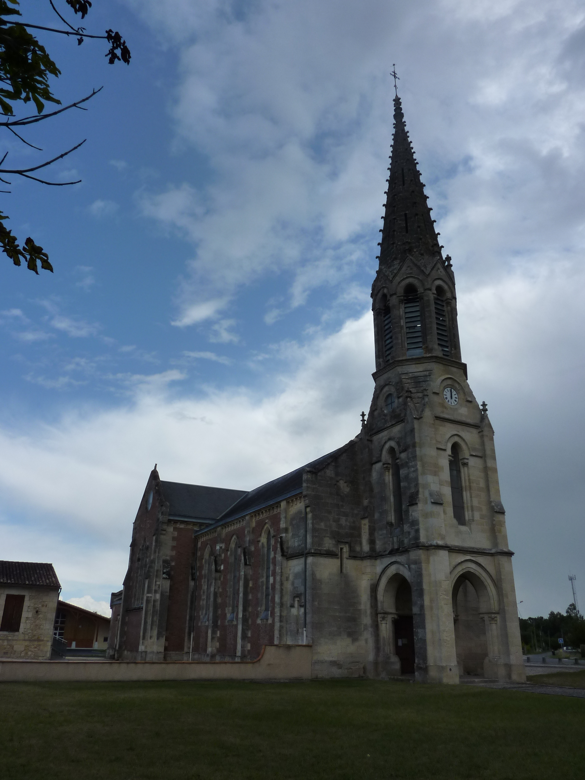 Saint Sébastien church in Brach (Gironde)